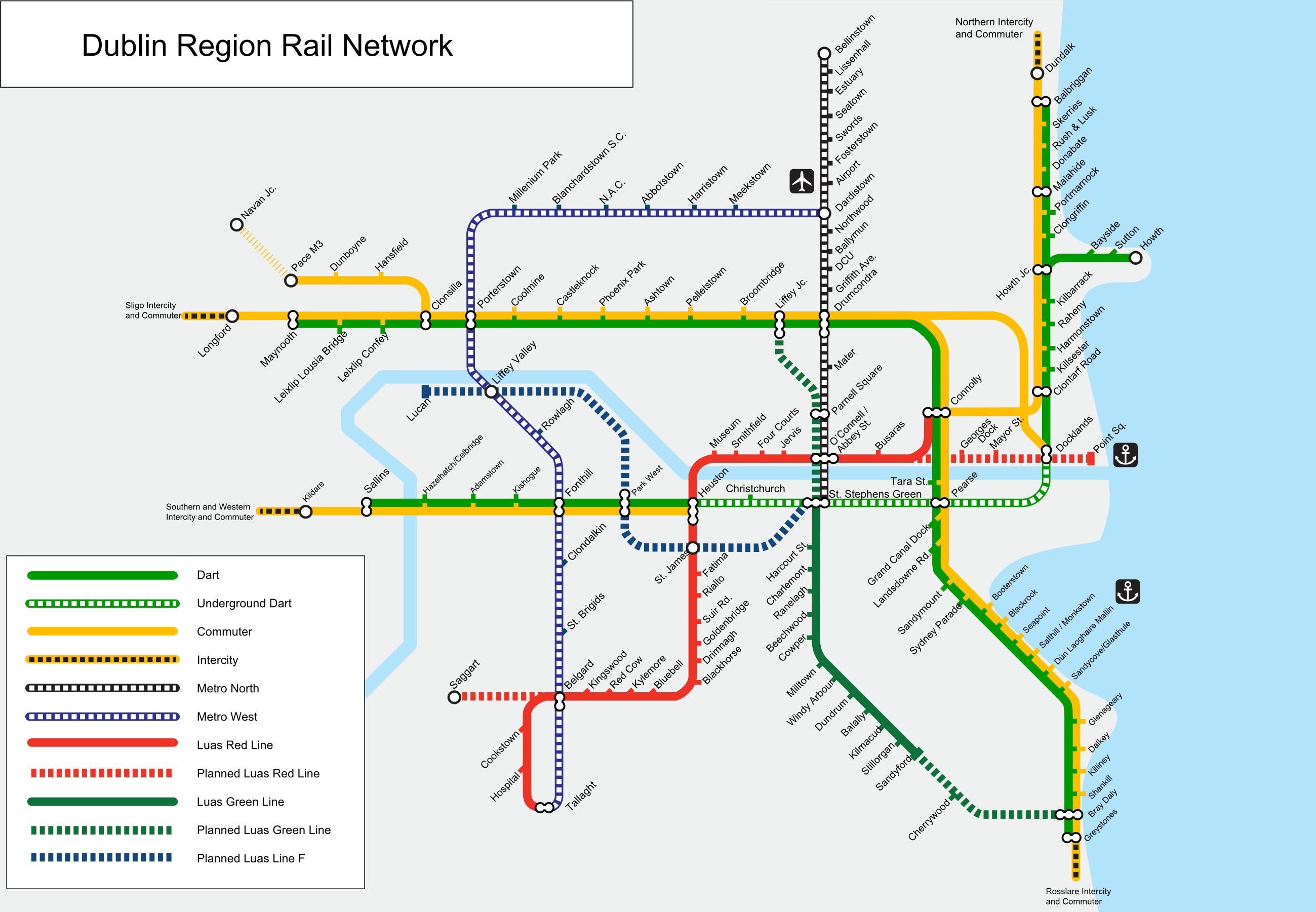 Map of Dublin Rail network including planned Luas extensions and metro lines